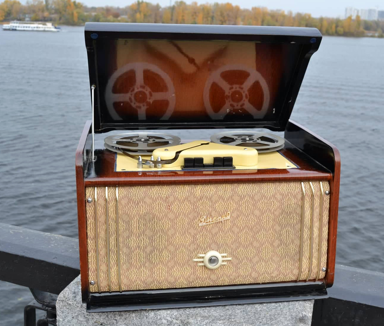 USSR (Ukraine) “Dnepr-9” tape recorder 1956